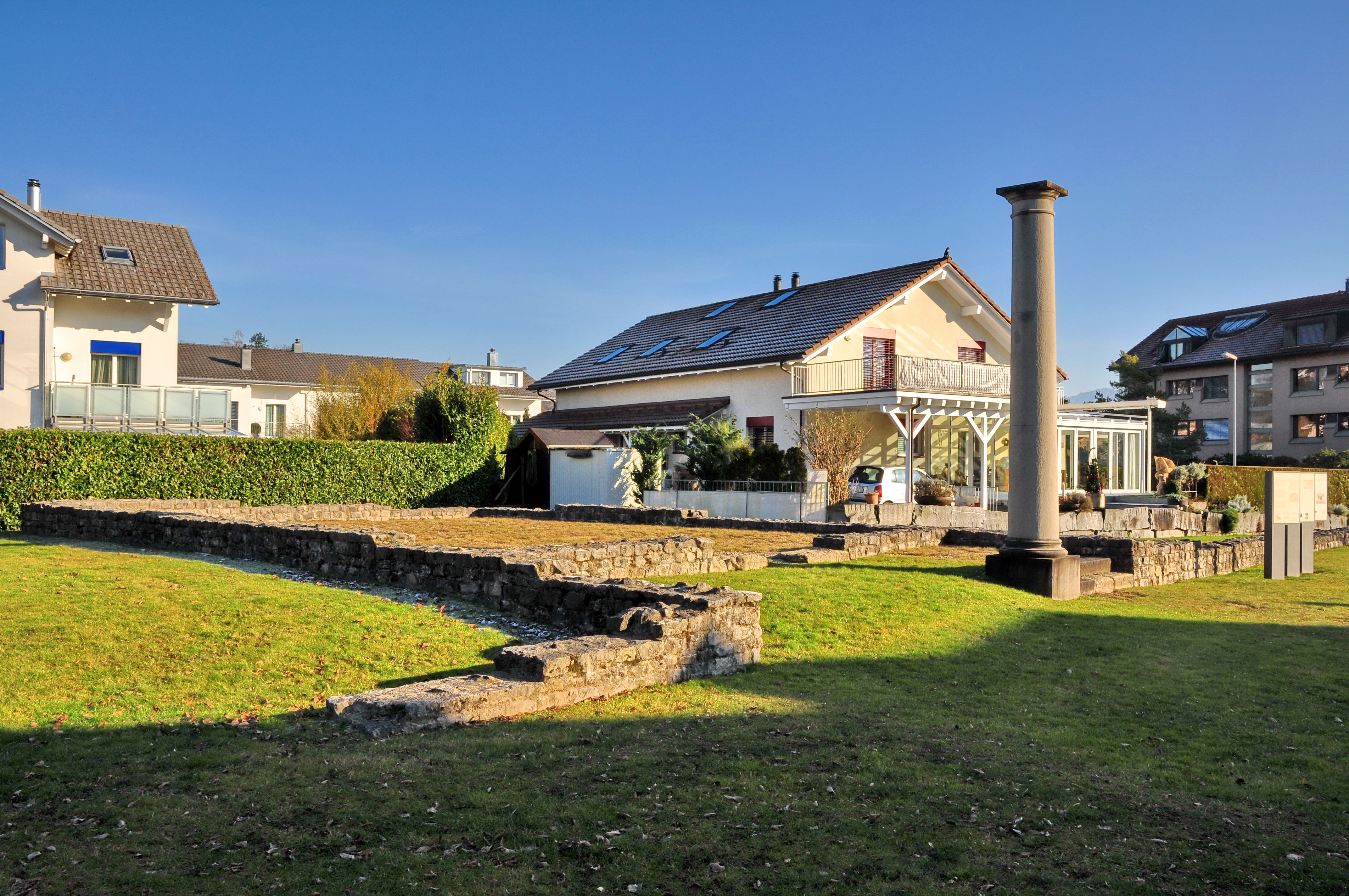 3rd century AD Roman walls of the former Roman vicus Centum Prata at Meienbergstrasse in Kempraten respectively Rapperswil (Switzerland)